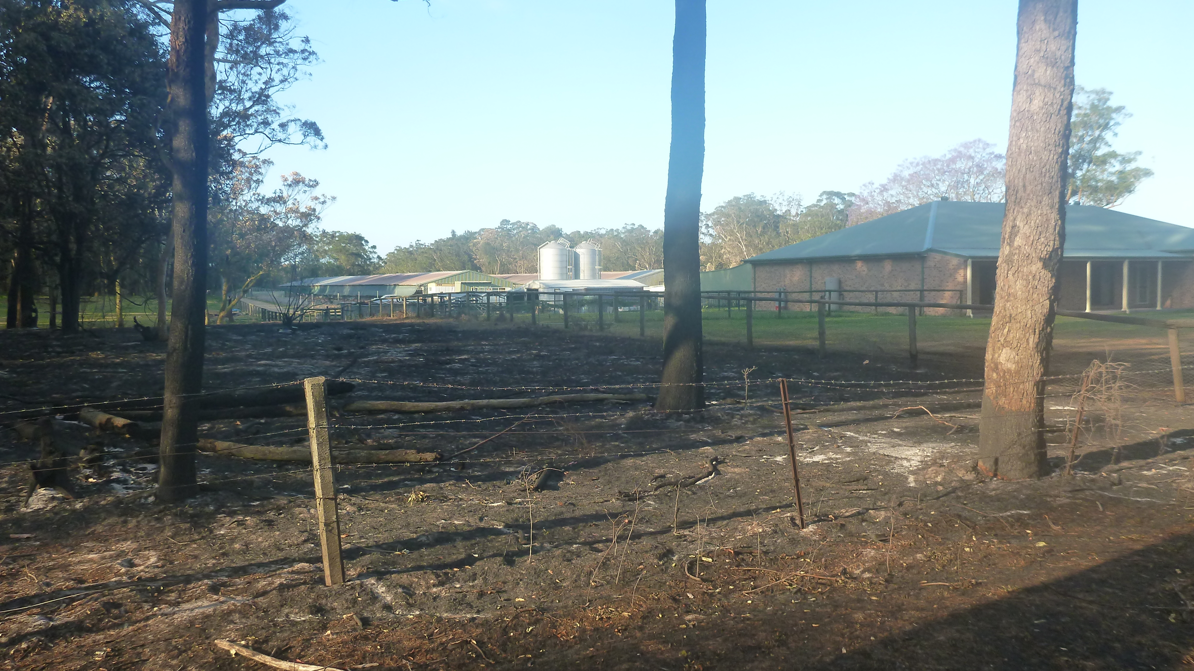 At Campvale in New South Wales, Australia during the the 2013 New South Wales bushfires, properties were threatened by fire, but no homes were lost.